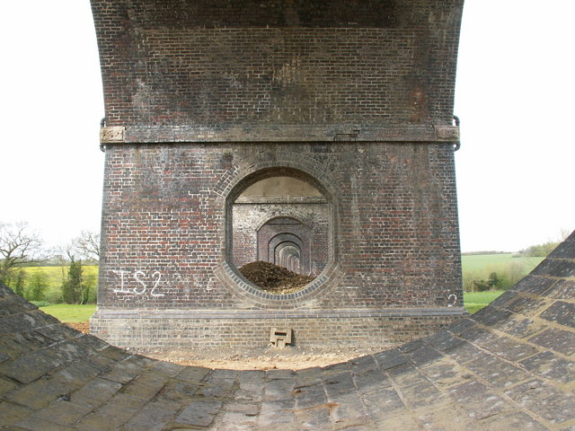 Souldern Viaduct, Souldern, Oxfordshire: view through the holes in the piers of the viaduct carrying the the Chiltern Main Line